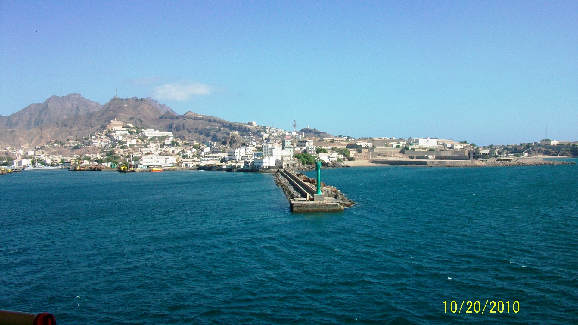 A port harbours of Aden Yemen and seascape.